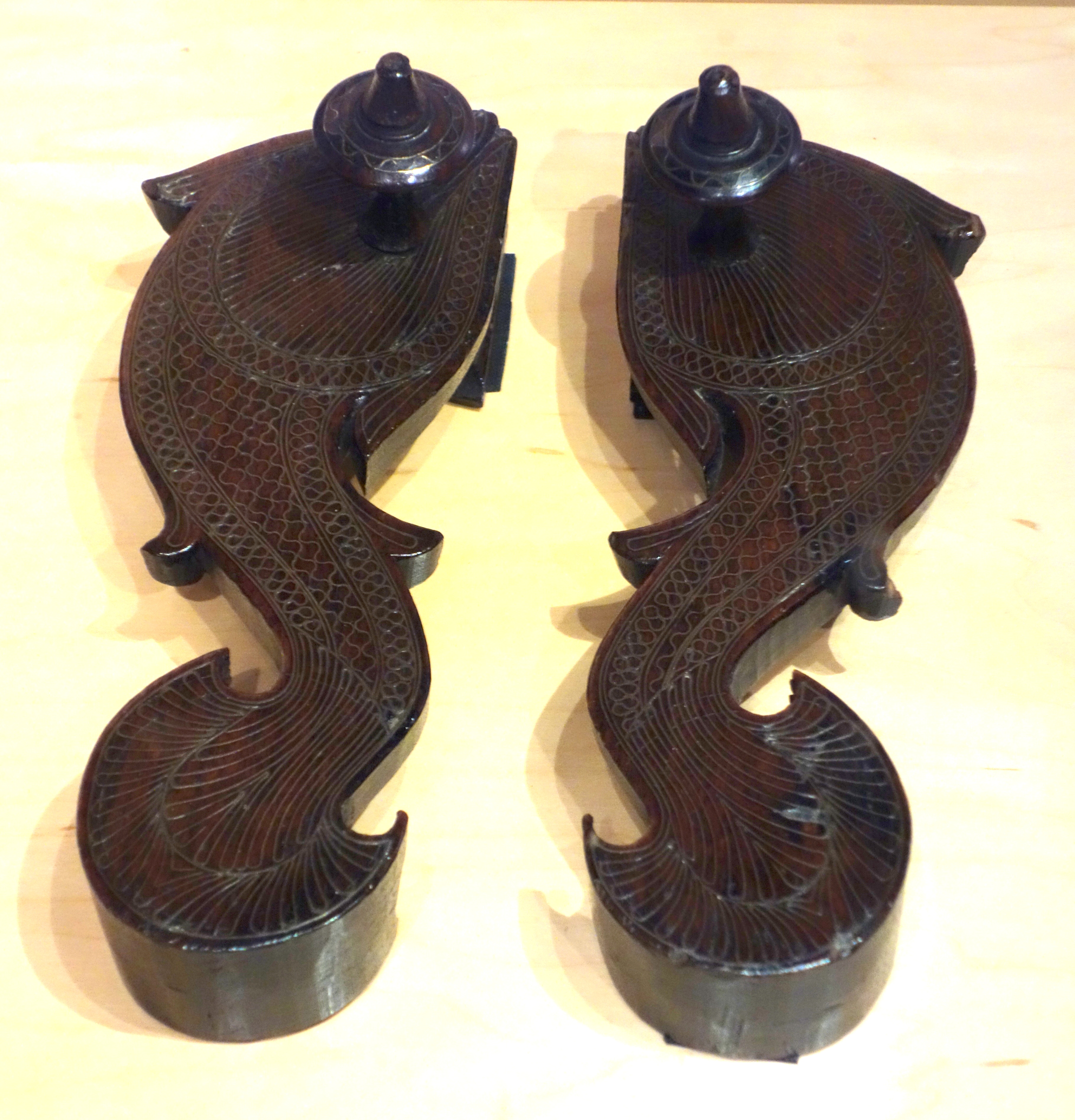 Exhibit in the Bata Shoe Museum, Toronto, Ontario, Canada. This item is old enough so that its design is in the public domain. The museum permitted photography without restriction.